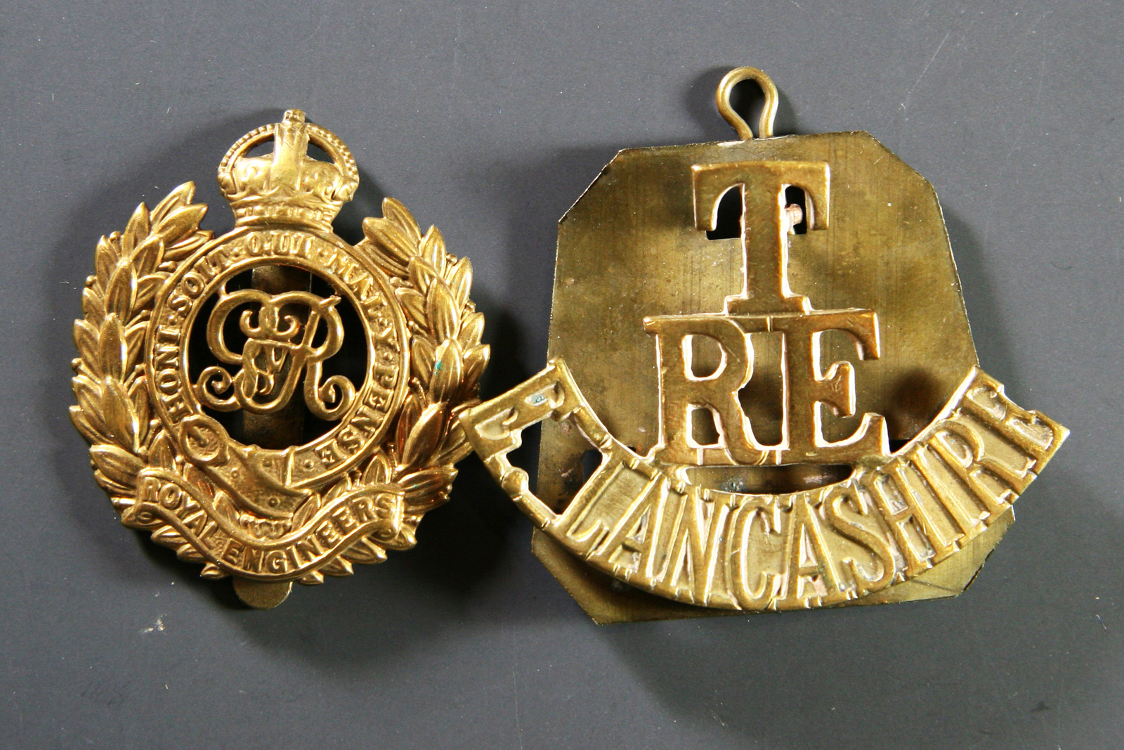 Alfred Worrell was born on 6 June 1892. He was a plumber on leaving school but in August 1914 became a policeman. He left the police service in order to join the Army. He signed up on 11 Nov. 1915 aged 23 and served in the Royal Engineers 404 (H) Field Company, 42nd East Lancashire Division as a sapper (2957). He was discharged on 2 Feb 1919 and married Dora Robinson on 24 Feb. 1919. Following the war he returned to the police force. His certificate of employment during the war however stated that he was a plumber. He died 4 Aug. 1957.